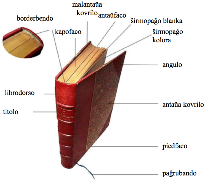 Names of individual parts of a book.